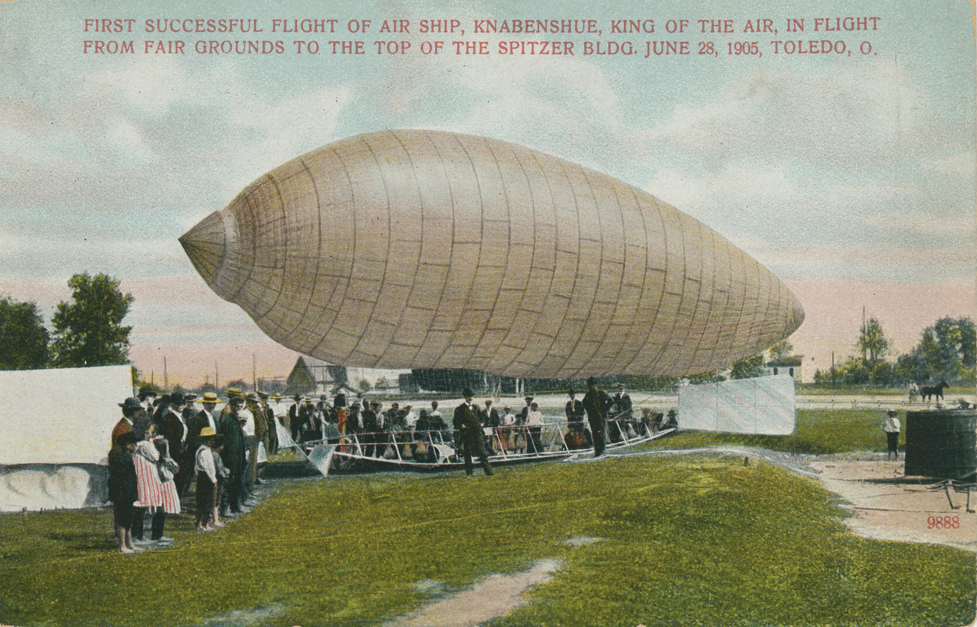 A postcard from the Ken Levin Toledo Postcard Collection, donated by Toledo resident, Ken Levin. The collection contains picture postcards about the Toledo area. Mr. Levin's collection was published by the Toledo Blade in a book entitled "You Will Do Better in Toledo: From Frogtown to Glass City", edited by Sandy and John R. Husman.